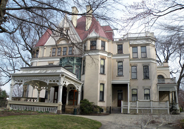 Picture of the Frick Mansion, or "Clayton", located at 7200 Penn Avenue (near the corner of Penn and S. Homewood Avenues) in the Point Breeze neighborhood of Pittsburgh, Pennsylvania, on March 21, 2010. This was the home of industrialist Henry Clay Frick. The Fricks bought the home shortly after their marriage in 1881. The house was built in the 1860s, original architect unknown, but modifications were carried out by Pittsburgh architect Andrew Peebles in 1883, and it was renamed "Clayton". Also, further remodeling of the house was done in 1892 by Pittsburgh architect Frederick J. Osterling. The house was the Frick family's primary residence from 1883 to 1905. Architectural style: Italianate. Currently, the house is part of the Frick Art & Historical Center.